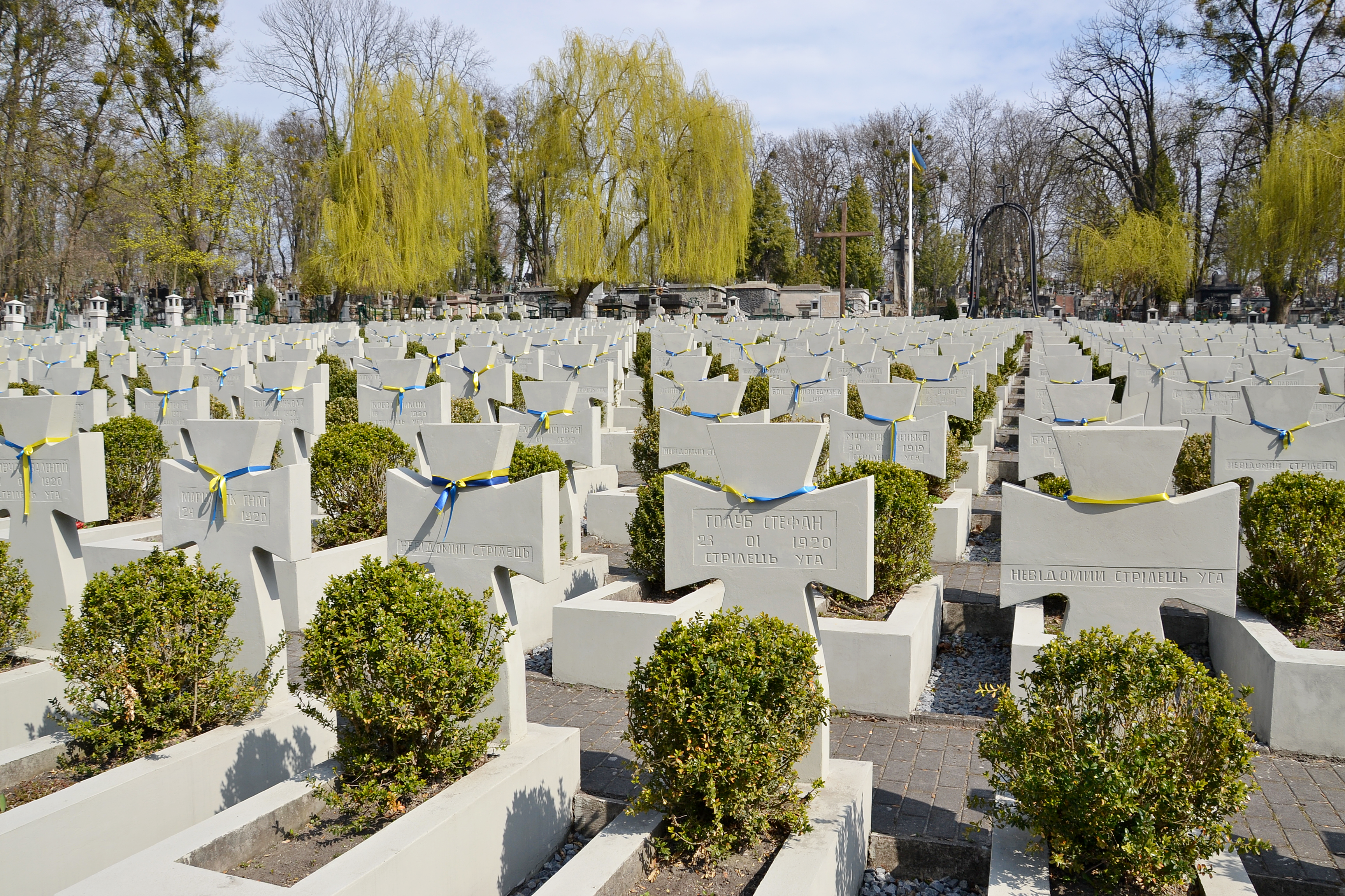 Sicz Riflemen Monument on Yanivsky cemetery, Lviv, Ukraine